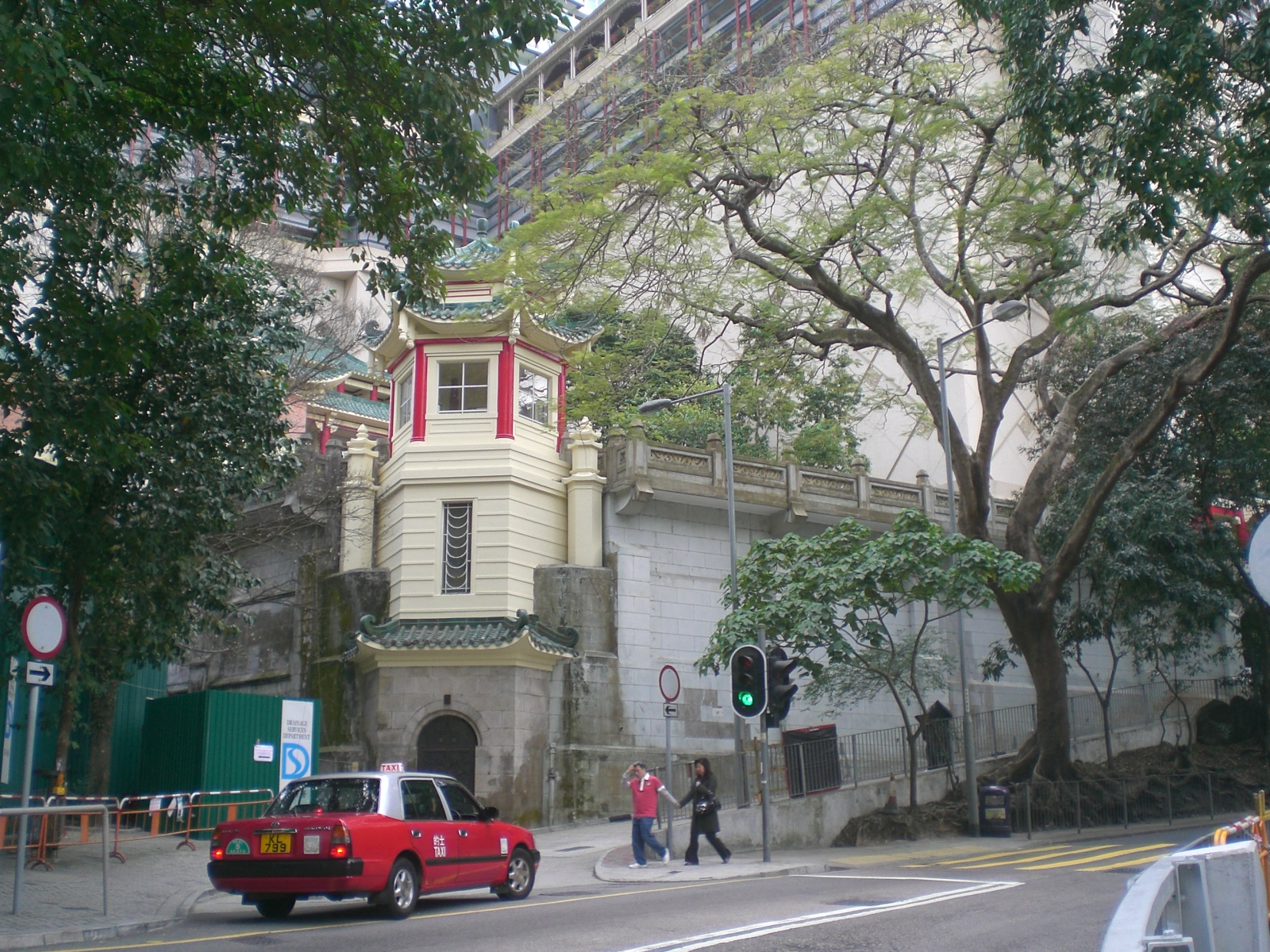 渣甸山名門 出口在 虎豹別墅 (香港)